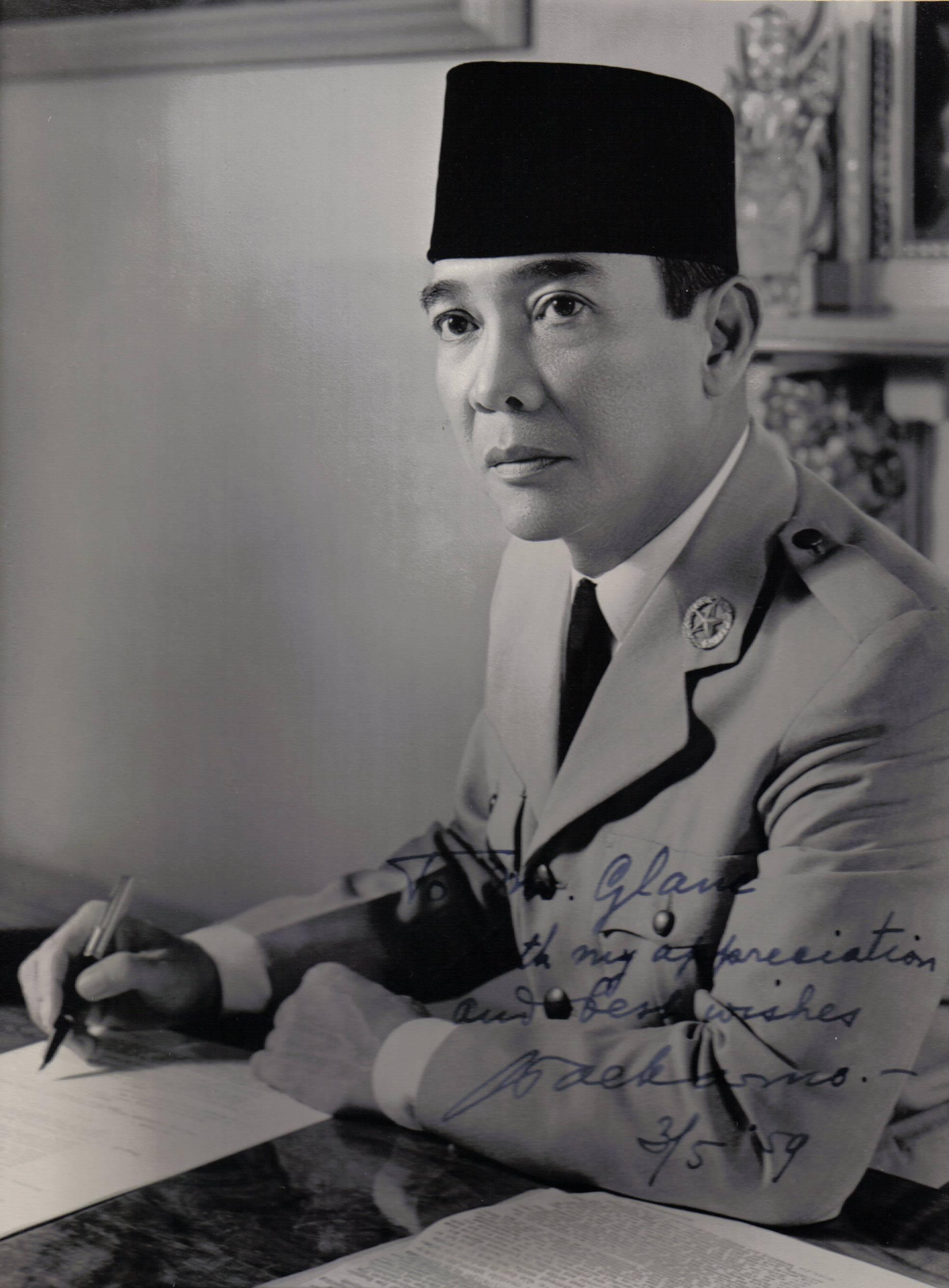 Sukarno, the first President of Indonesia